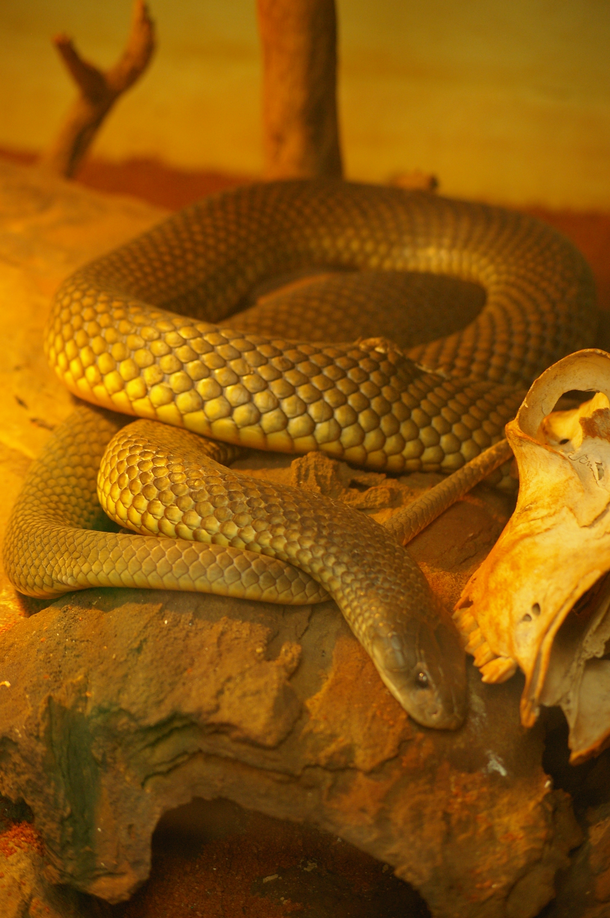 Pseudechis australis or Mulga Snake Photo taken at Armadale Reptile Centre